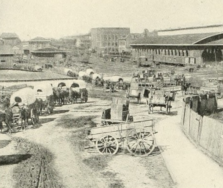 Civilians of Atlanta, Georgia scramble to board the last train to leave under the mandatory evacuation order given by General William T. Sherman. Many wagons and belongings had to be abandoned.